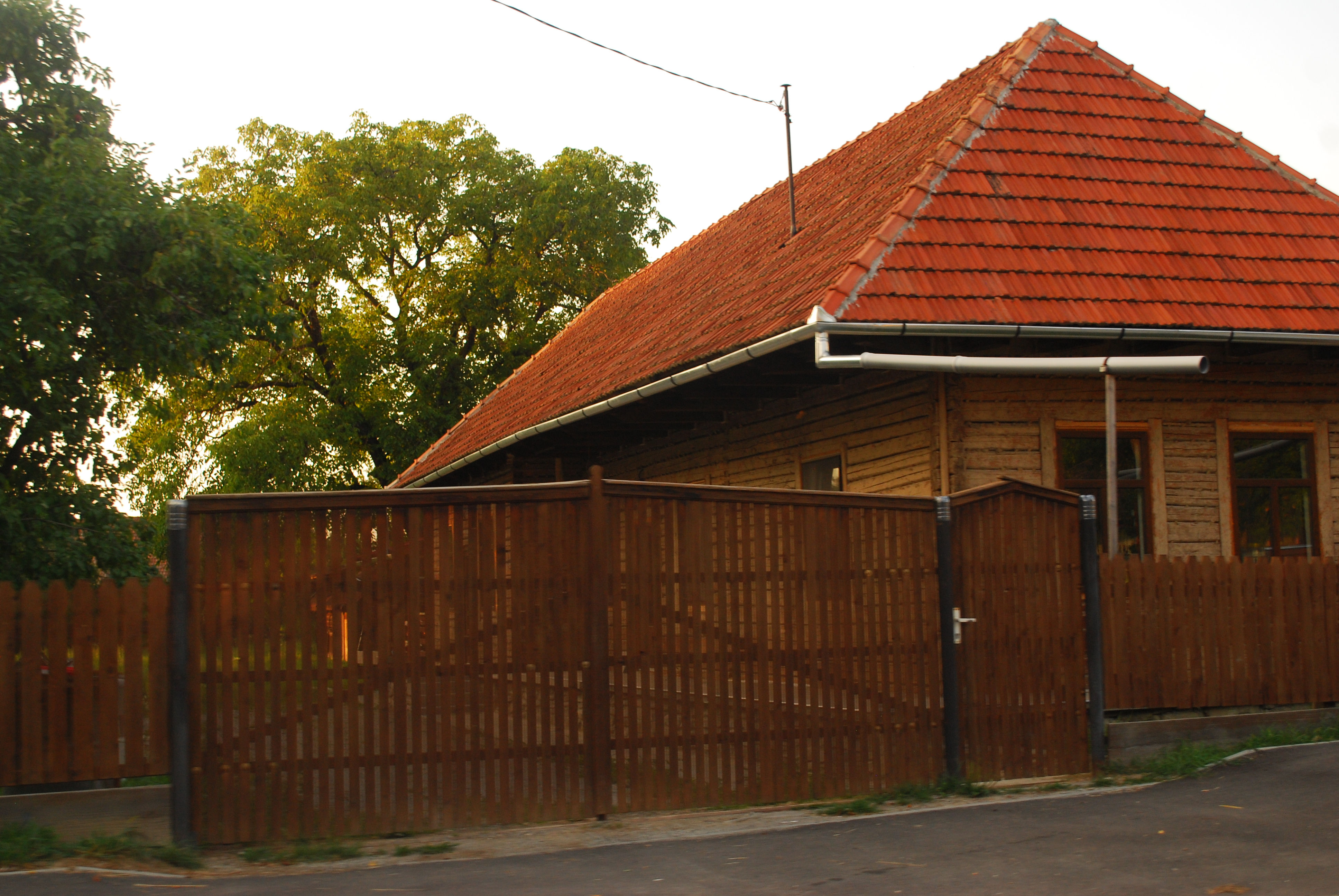 Wooden house in Covasna, Covasna County, Romania